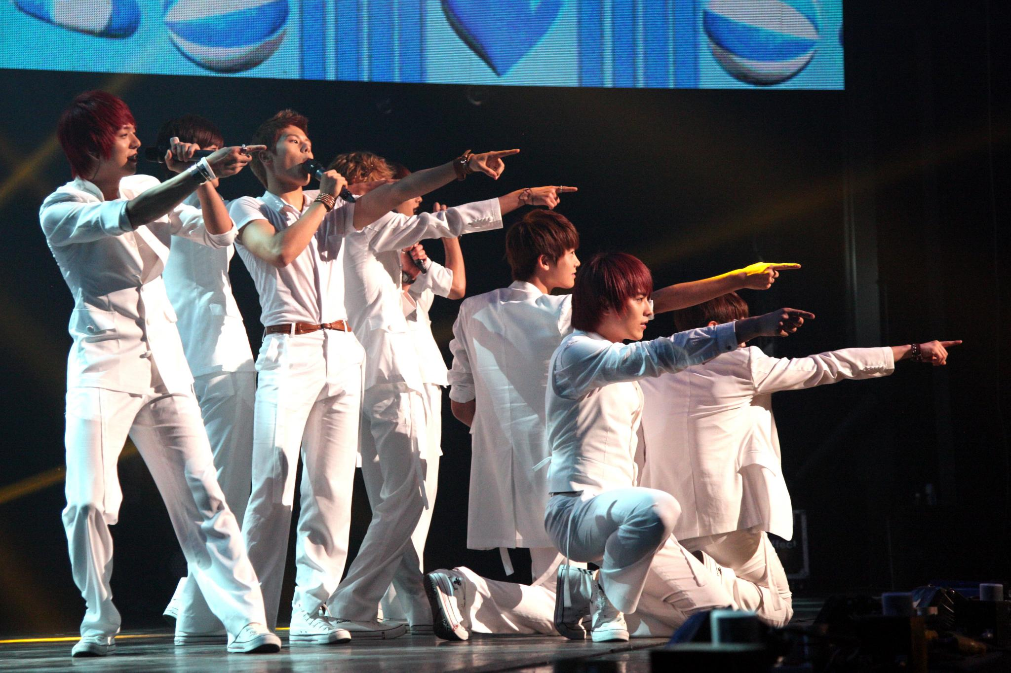 제국의아이들 @ Cyworld Dream Music Festival 싸이월드 드림 뮤직 페스티벌_14